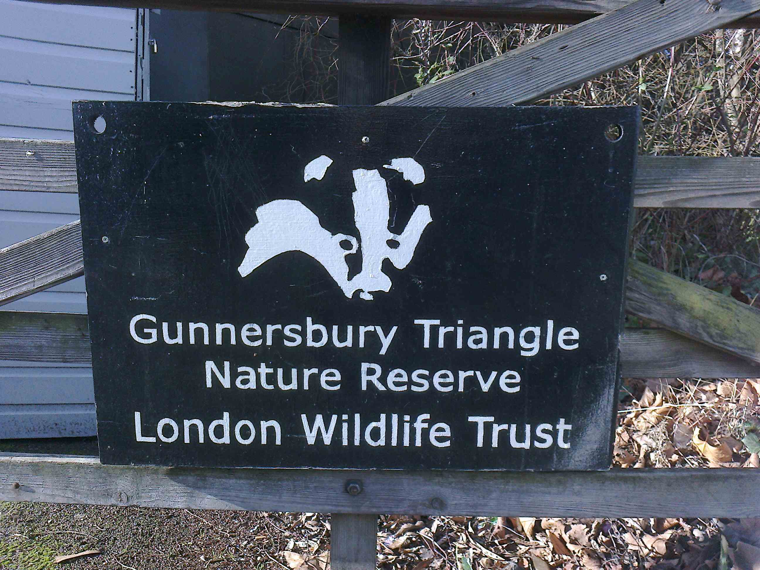 The Signboard on the front gate of Gunnersbury Triangle Local Nature Reserve, London Wildlife Trust